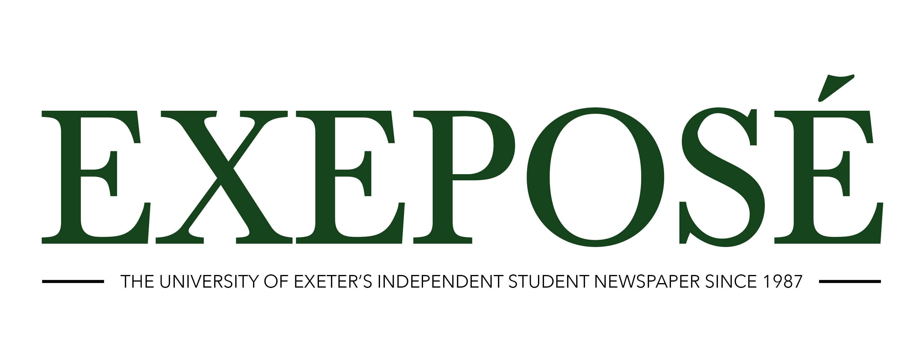 The redesigned logo for the University of Exeter's independent student newspaper, Exeposé